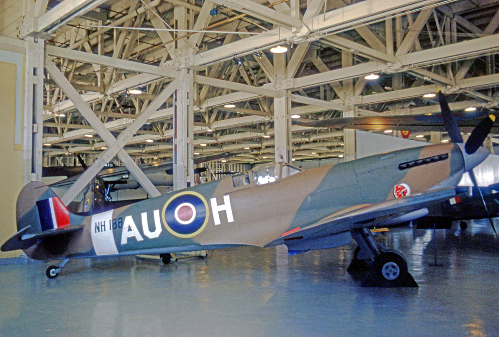 Supermarine Spitfire IX NH188 wearing the markings of 421 Squadron Royal Canadian Air Force at the Canadian Aviation Museum at Rockcliffe Airport, Ottawa